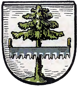 Coat of Arms of Borislawitz (today Borzysławice).